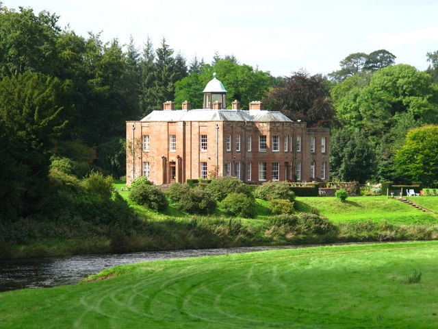 Warwick Hall Warwick Hall was once owned by the Liddle family. It is a 20th century building done in the neo-Georgian style. An 1828 building once occupied the site but burned down in 1936. The stables at the hall are original Georgian.